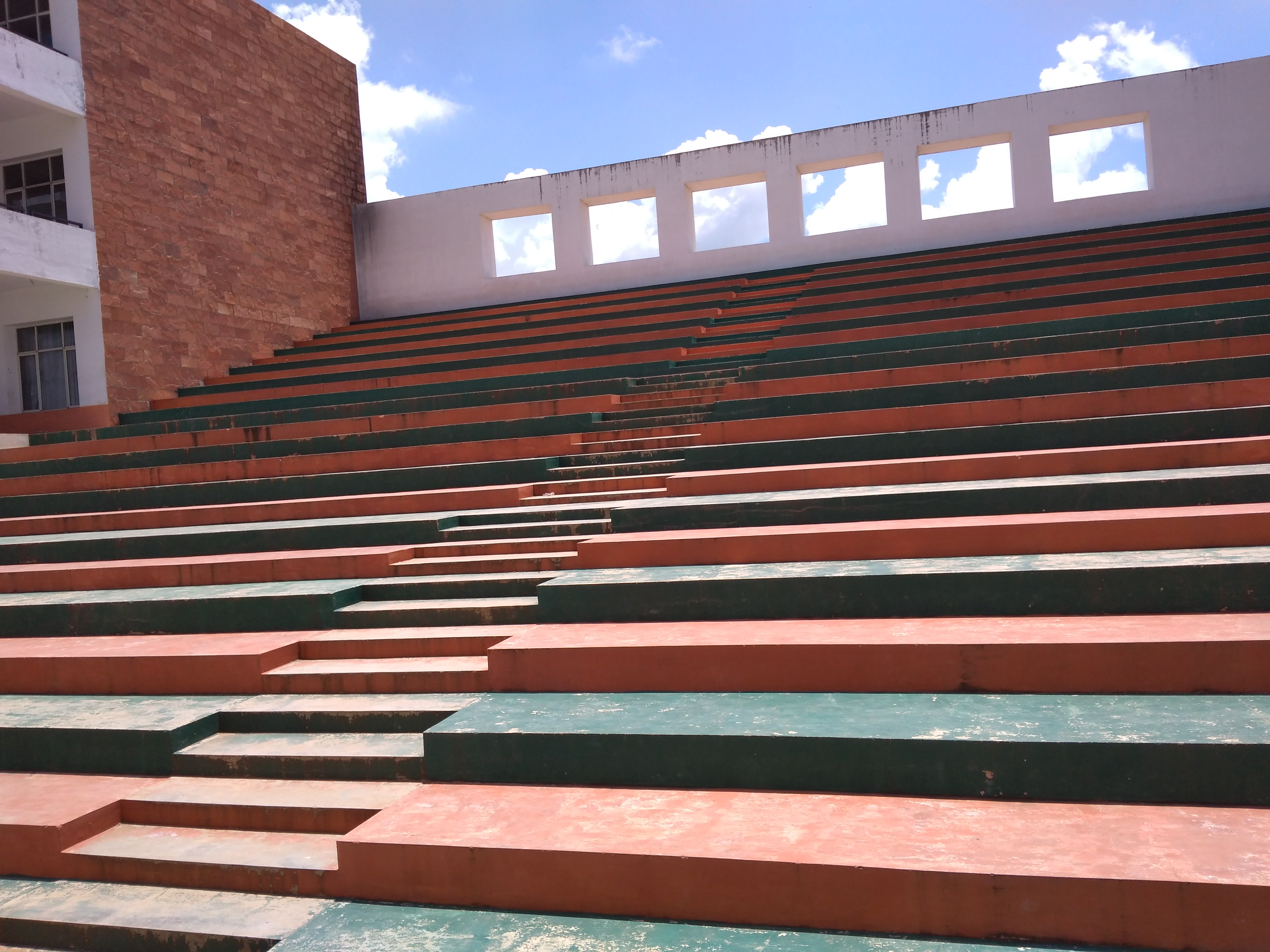 Open air auditorium at VVIT